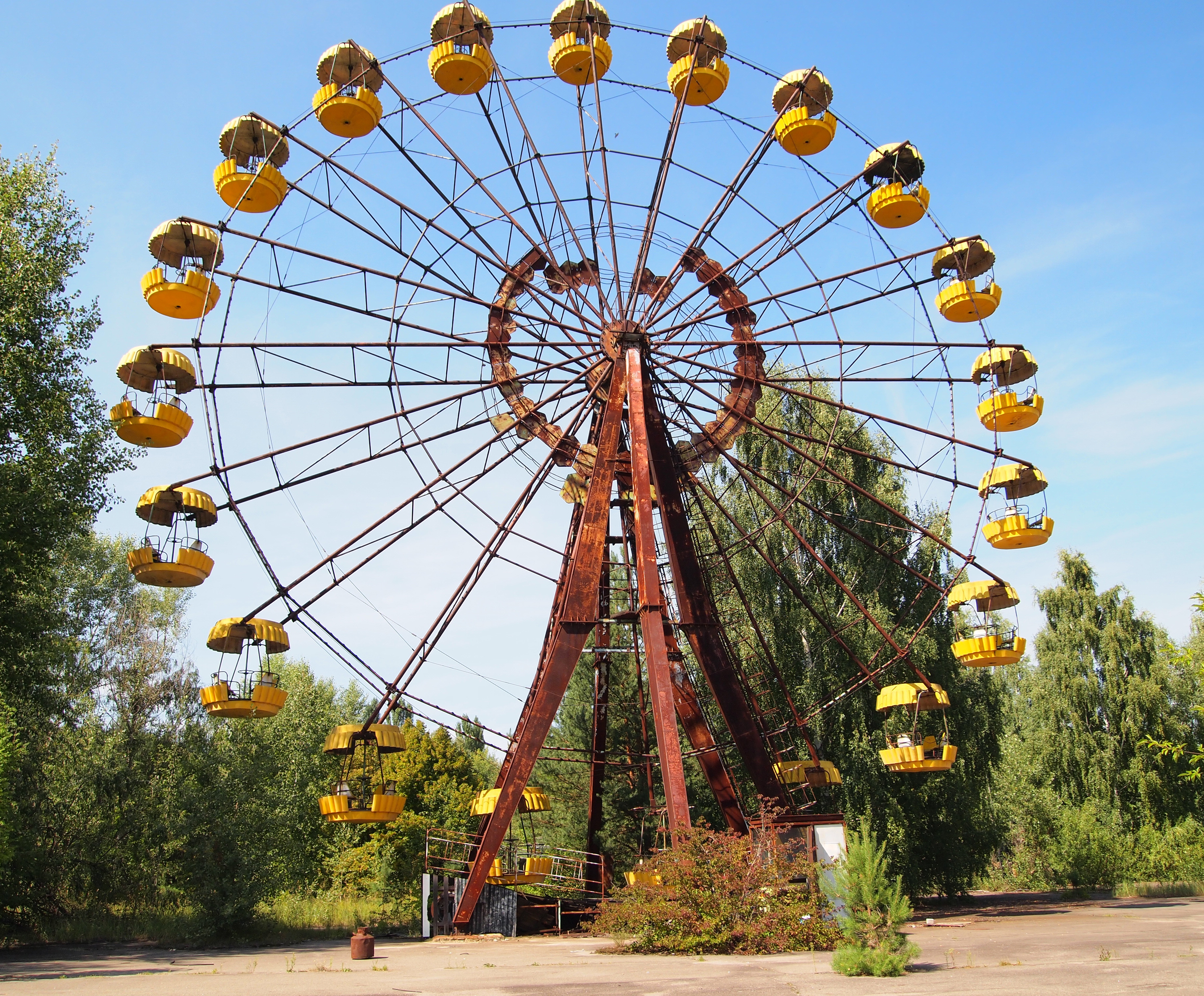 Ferris wheel in Pripyat, Chernobyl Exclusion Zone, Ukraine. This photograph was taken with an Olympus E-PL1